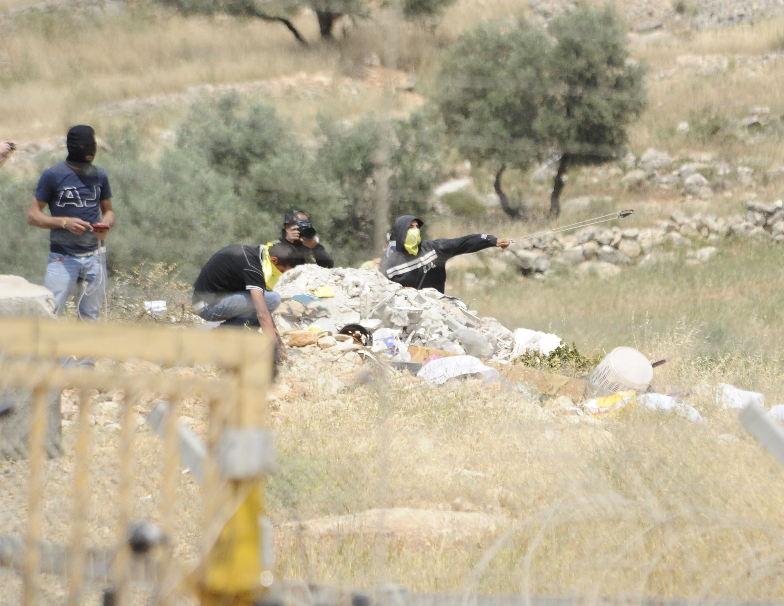 May 13, 2011. 'Undercover Israeli combatants threw stones at IDF soldiers in West Bank' Testimony by commander of the Israeli Prison Service's elite 'Masada' unit sheds light on IDF methods in countering demonstrations against barrier